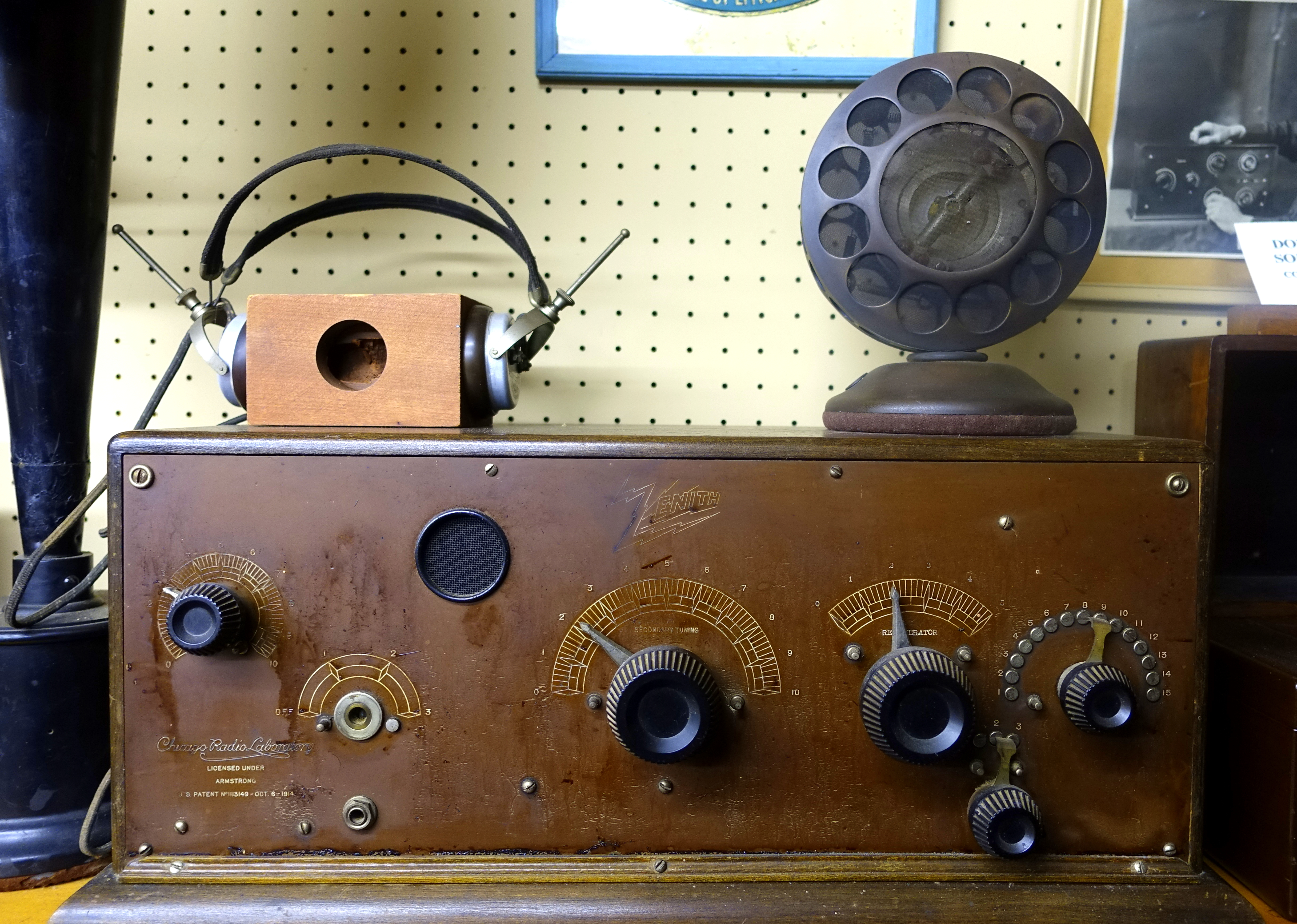 Exhibit in the wireless collection of the New England Wireless and Steam Museum - East Greenwich, Rhode Island, USA.